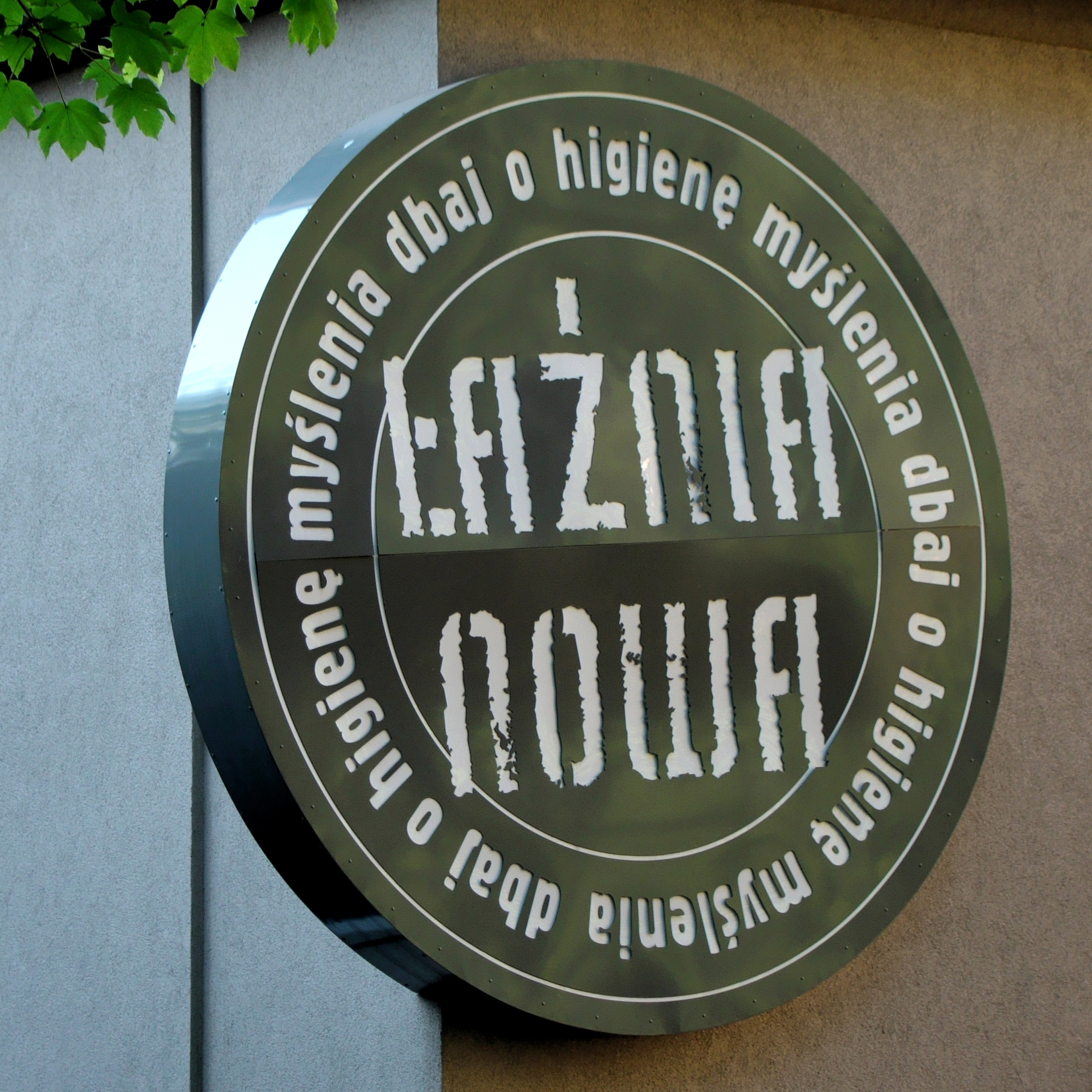 Łaźnia Nowa Theatre in Kraków - signboard, Nowa Huta, osiedle Szkolne